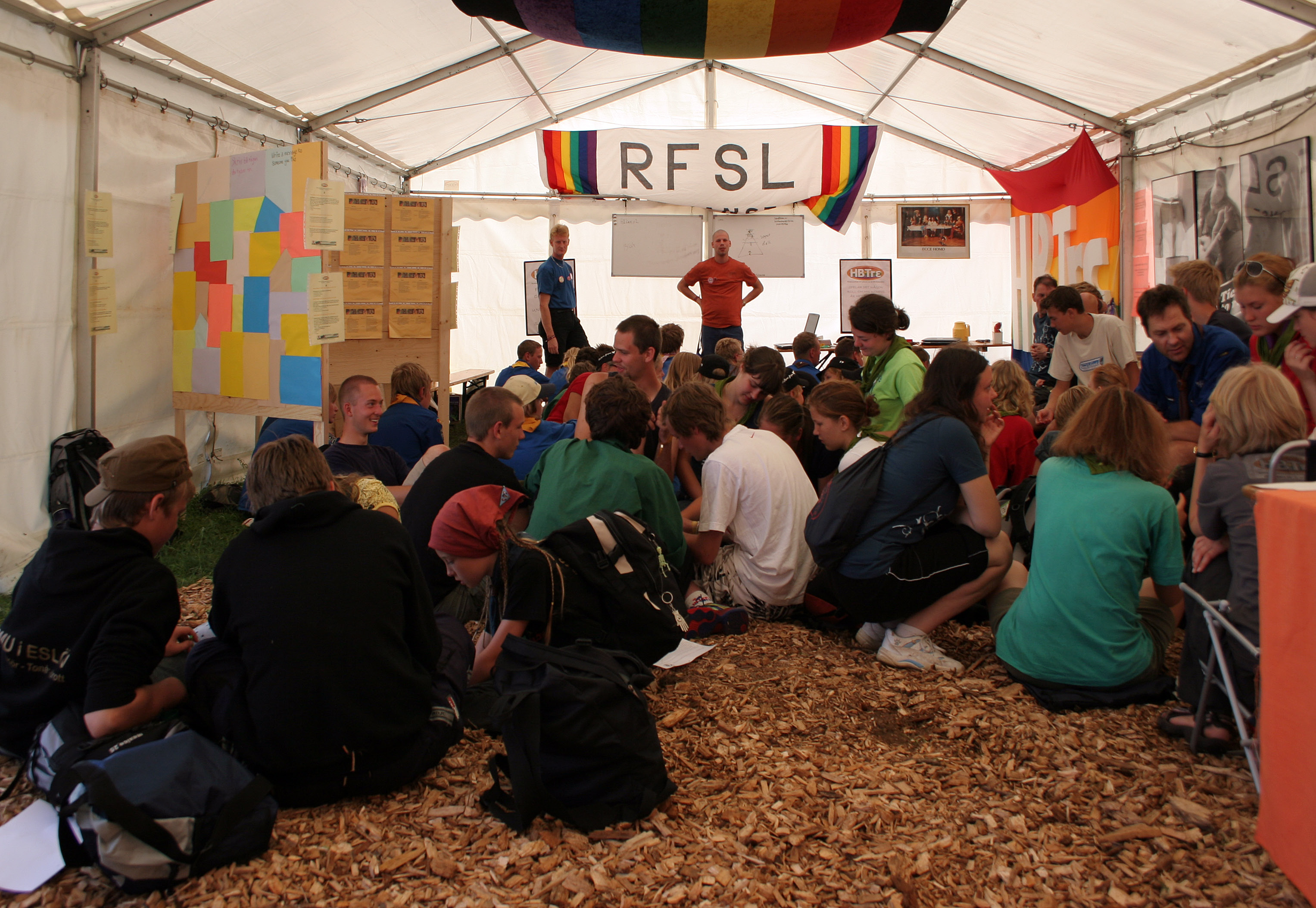 Swedish Federation for Lesbian, Gay, Bisexual and Transgender Rights holding seminars at Jiingijamborii national jamboree in Rinkaby, Sweden.